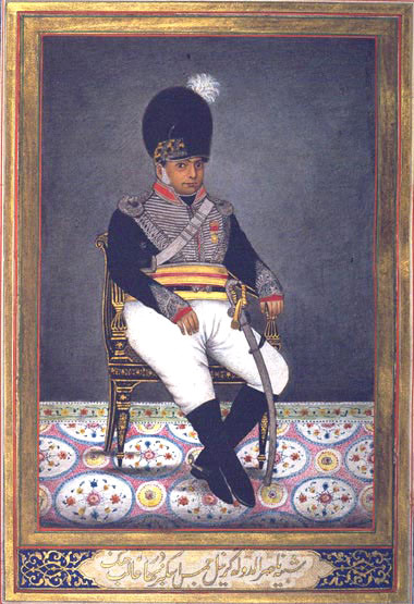 Portrait of Colonel James Skinner in uniform, CB, (1778–1841), c.1830. The portrait is from Skinner's own Tazkirat al-Umara, or Account of the Nobles [of Delhi and its neighbourhood], in the British Library (Add.27255, f.4), dated 1830. British Library: B20037-51